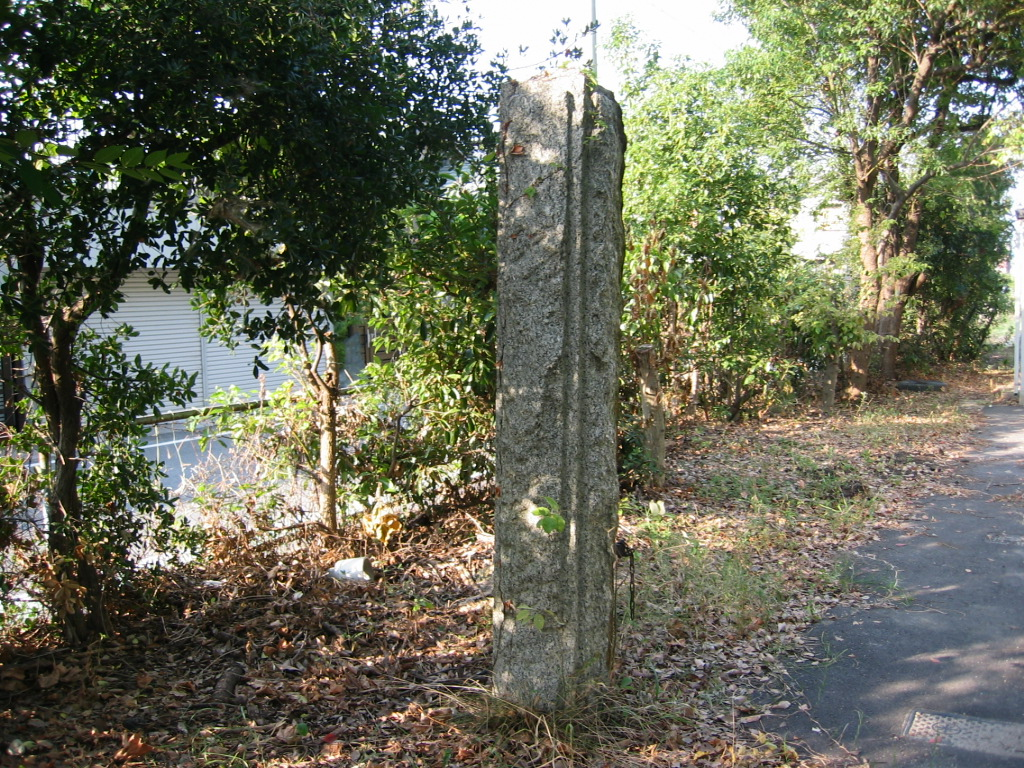 A sign of old Narawa junior high school north gate.